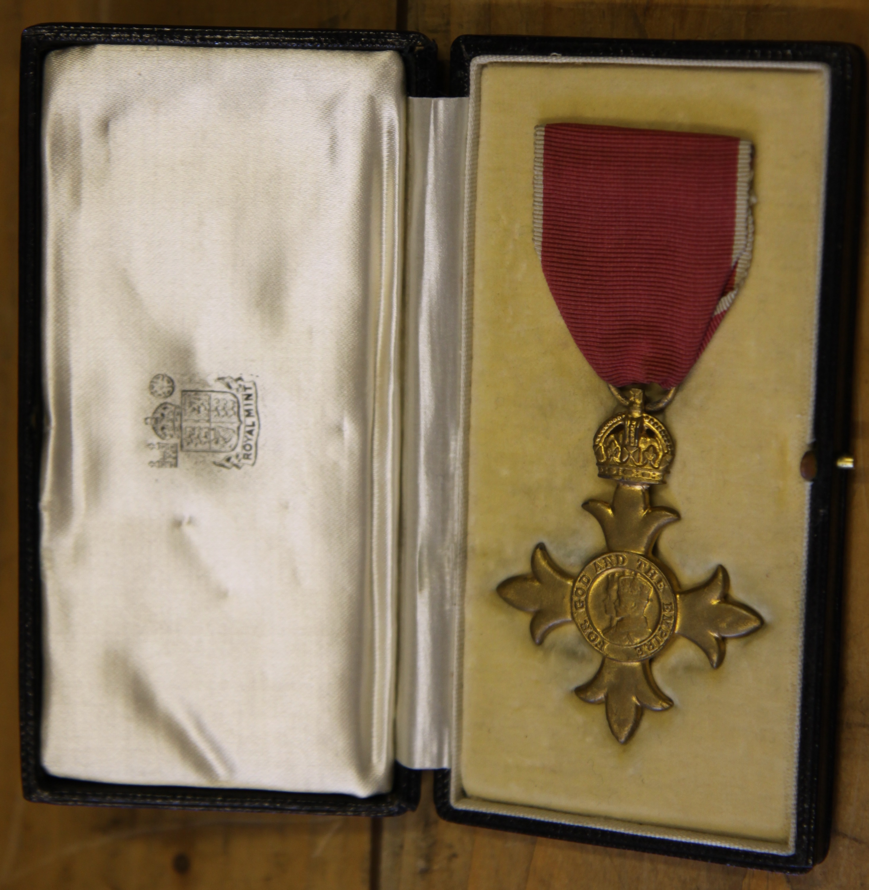 Alan Turing's OBE (Order of the British Empire) Medal - currently held in Sherborne school archives